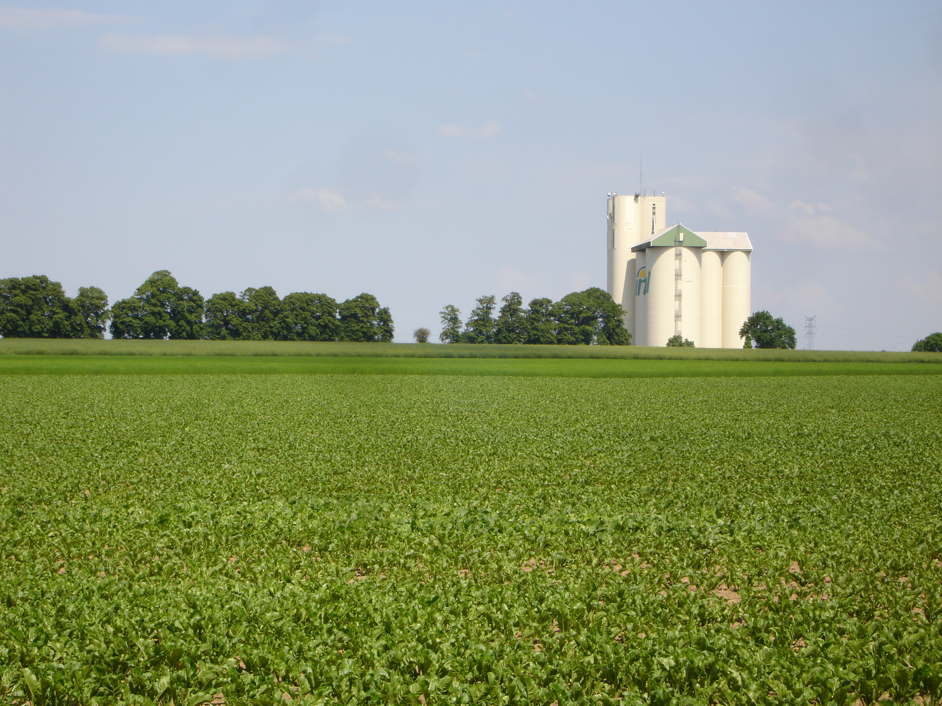 The silo of Lambus, France